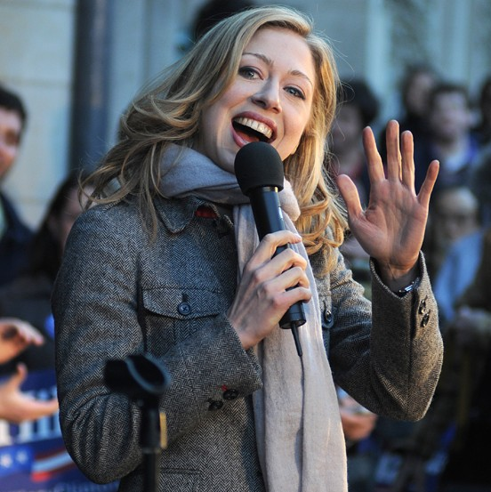 Chelsea Clinton in Philadelphia, USA.